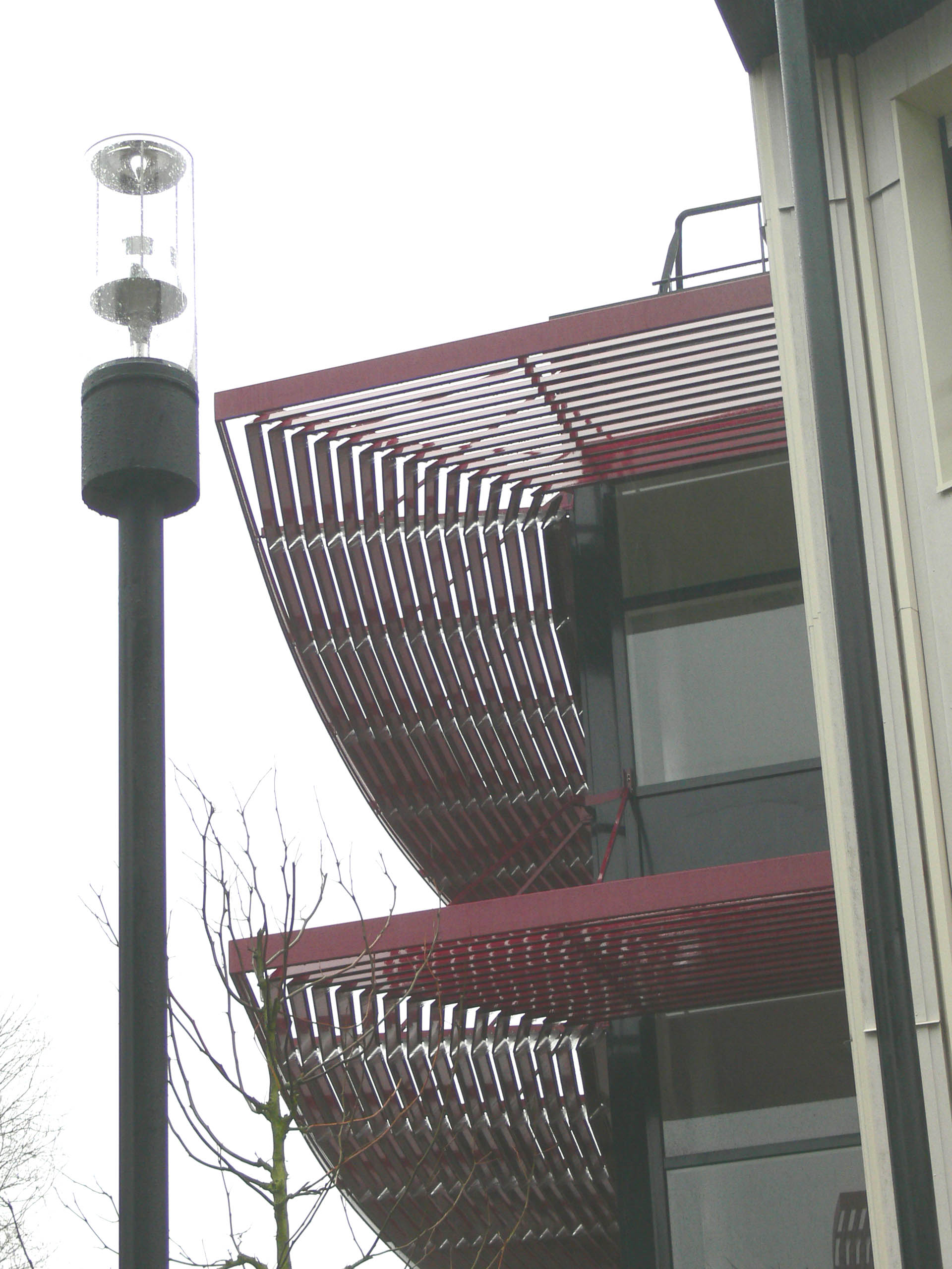 Detail of Architectural "Brise soleil" in a Retirement home (with ecological & energy efficiency building), in Trith-Saint-Léger, in north of France, (dept : 59) in Nord-Pas-de-Calais region, made with ecological principles.